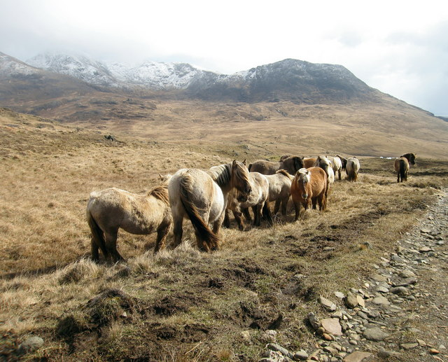 Rum Ponies The ponies are still used to bring the culled deer off the slopes. Taken from Hugh's Brae, the track from Kinloch to Harris. Rum Cullins in background.